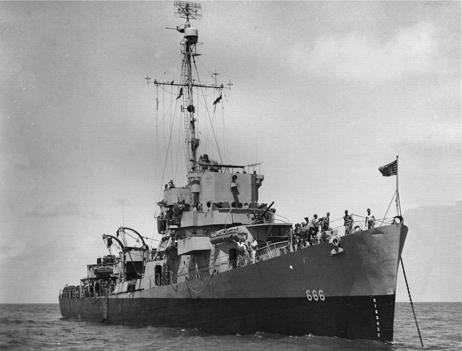 The U.S. Navy destroyer escort USS Durik (DE-666) at anchor off Norfolk, Virginia (USA), on 31 December 1944. Durik served as a schoolship for precommissioning crews of escort vessels, frigates, and high-speed transports at Norfolk from 09 December 1944 to 14 January 1945.